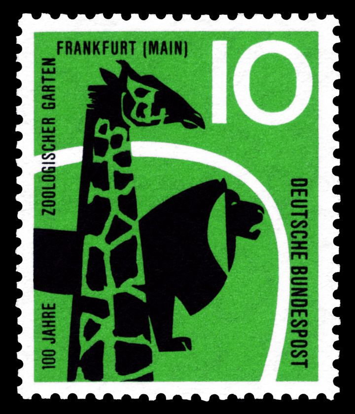 100 years of zoological garden Frankfurt am Main Graphics by A. und G. Haller Ausgabepreis: 10 Pfennig First Day of Issue / Erstausgabetag: 7. Mai 1958 Michel-Katalog-Nr: 288